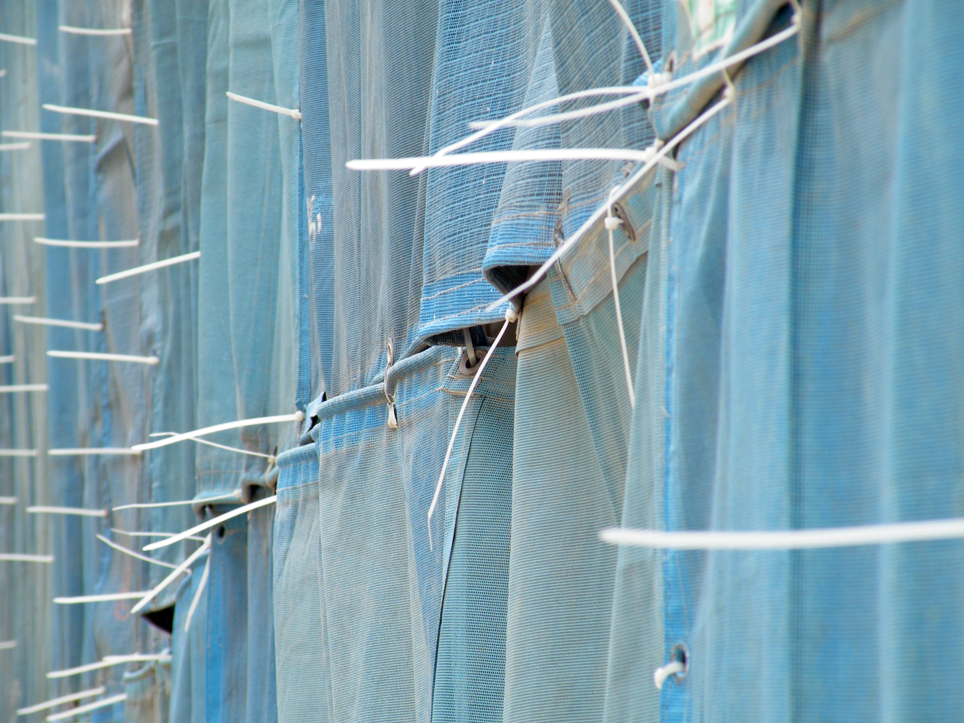 Cable ties have been used to attach the shade cloth to the scaffold at a construction site in Singapore